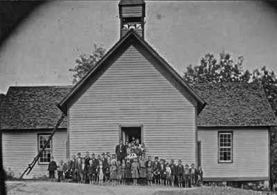 The old Victorian-Style Willets Graded School, a +shaped building that served students of the Willets with an Elementary School education from 1909 until 1951, when it was consolidated with four other small schools in the Scott Creek township, forming Scotts Creek Elementary School, which received a new building & campus in 2001. The old building is now the county's K-12 alternate school.